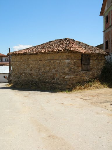 House in Vatitopos/T'rlis, Aegean Macedonia, Greece